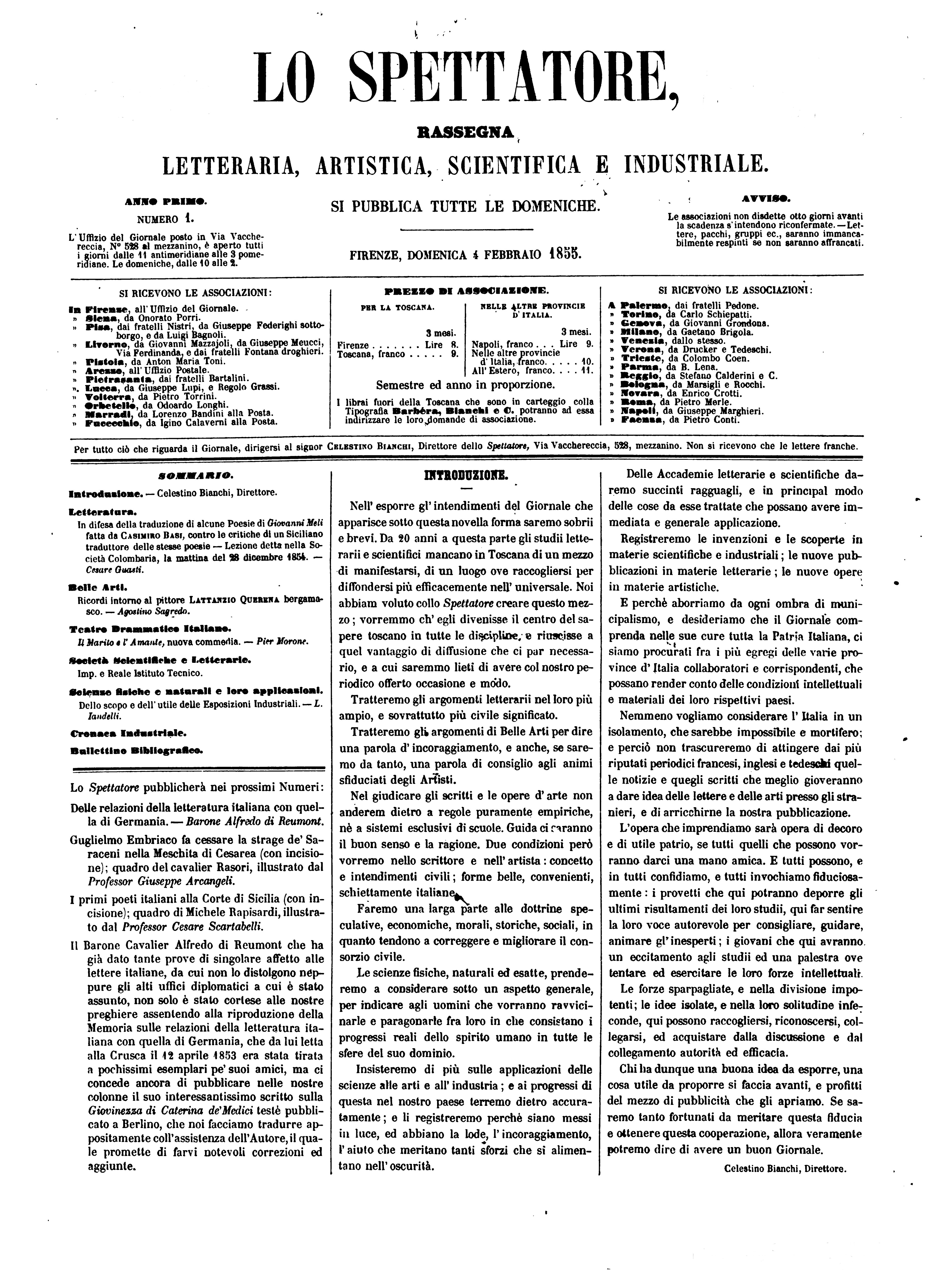 First page of first number of Lo Spettatore italian newspaper 4 february 1855